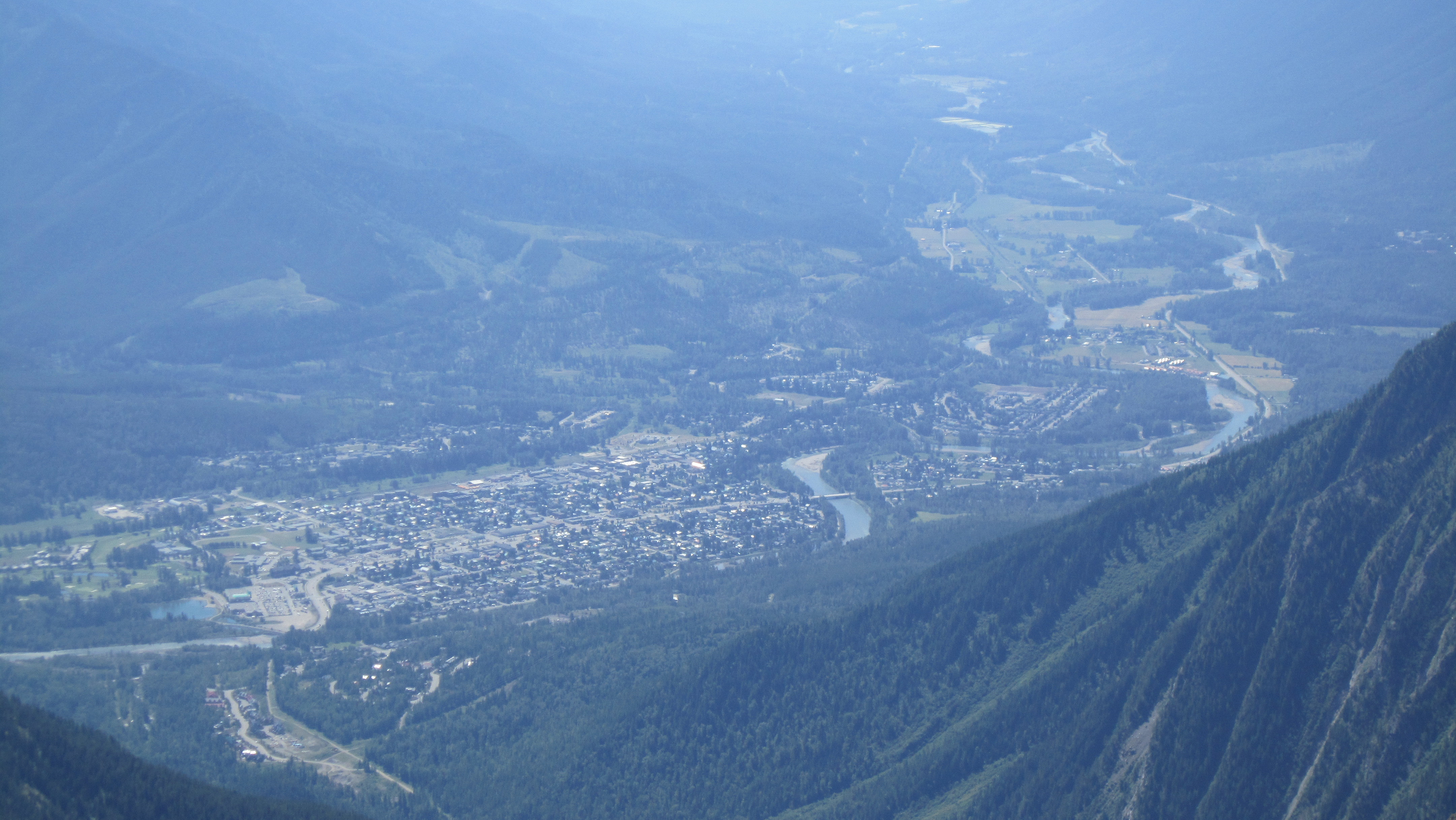 The town of Fernie BC from Three Sisters mountain